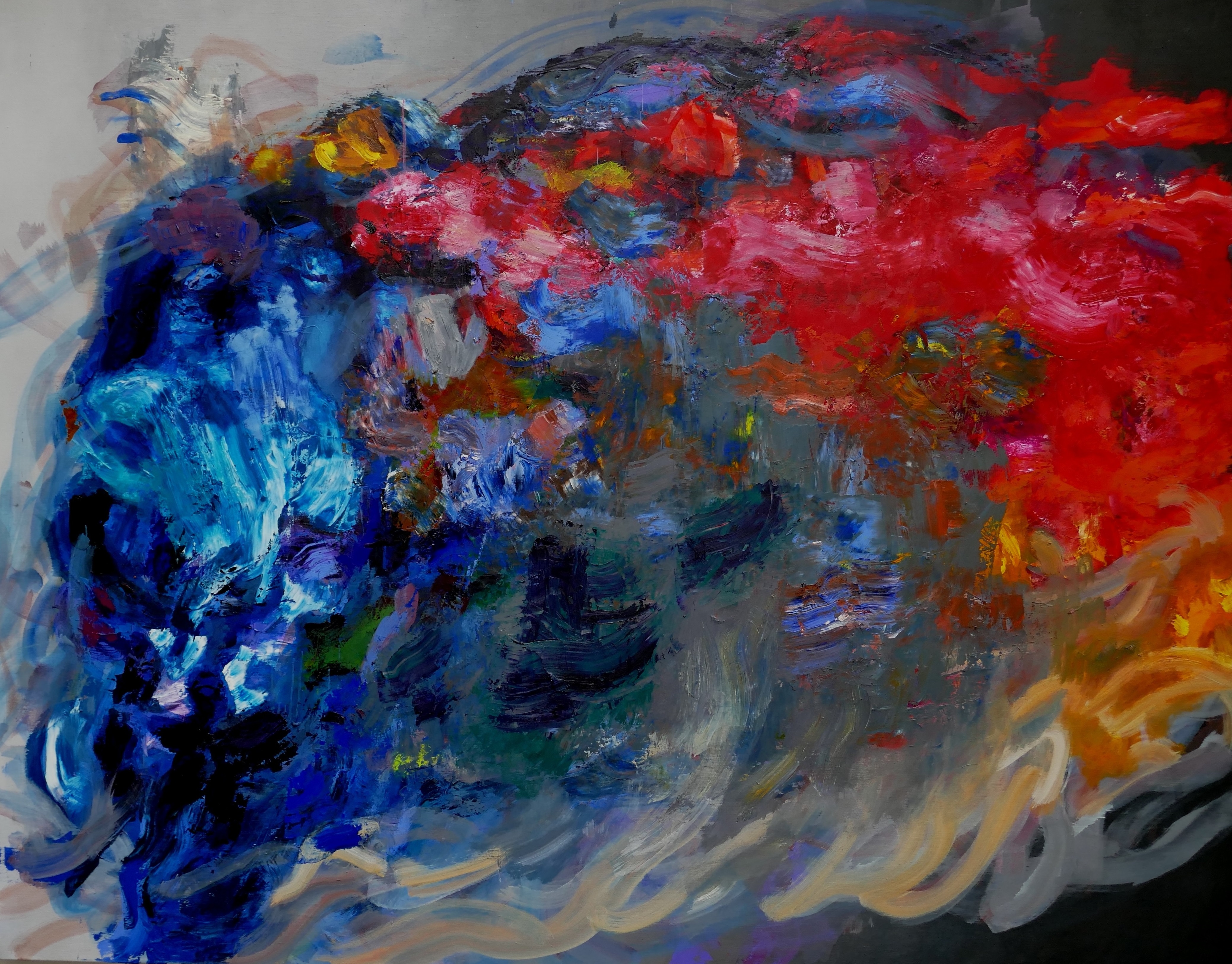 Hermann Kremsmayer, 190 x 240 cm, 2020